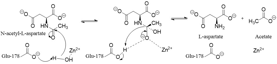 Aspartoacylase mechanism using water as a nucleophile. All the coordinating residues are not shown for clarity.